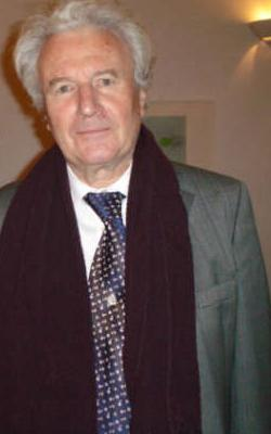 Sir Colin Davis by wikipedia user urregoluis